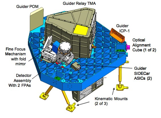 JWST FGS opt assembly